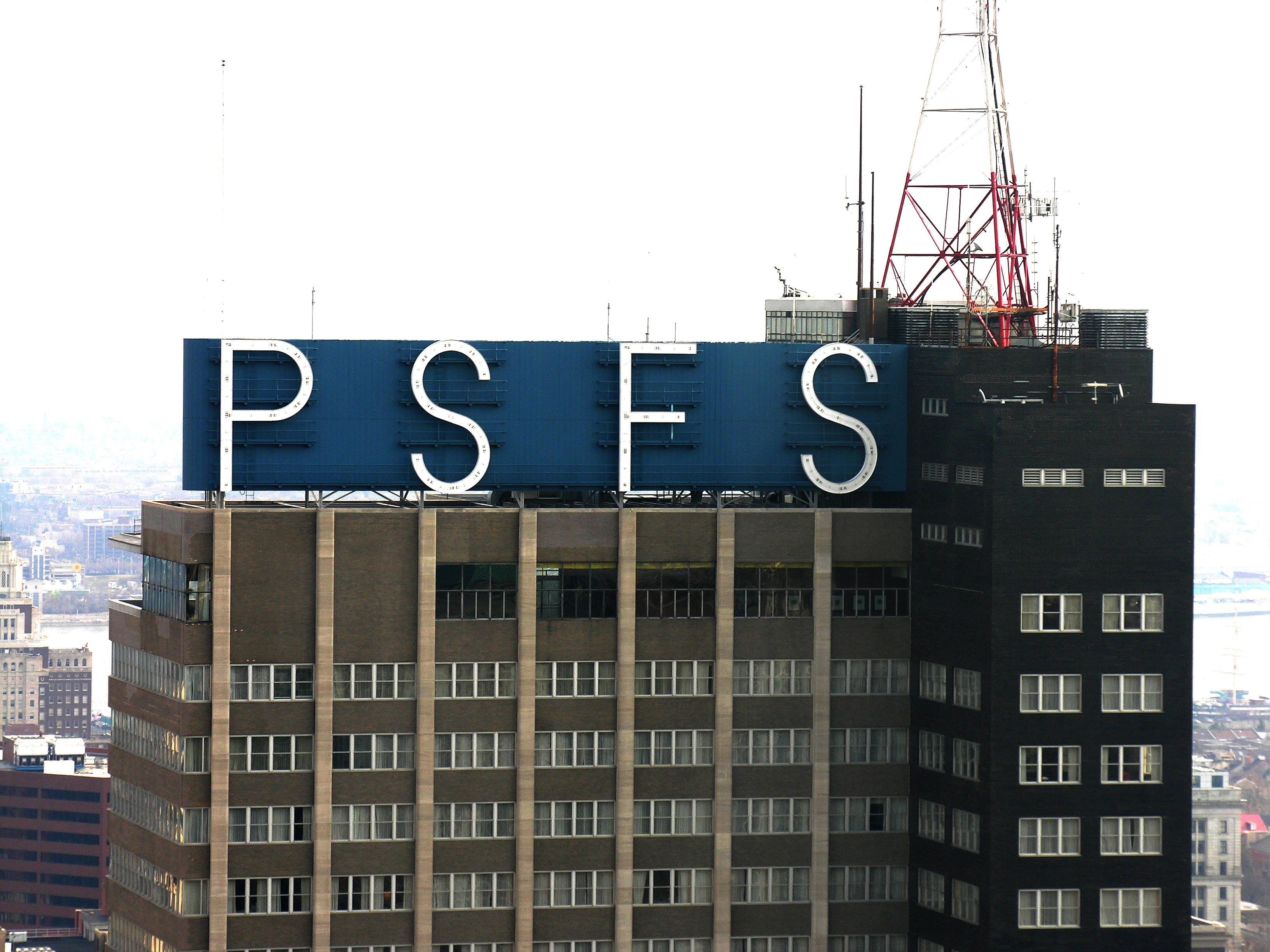 The top floors and sign of the Loews Philadelphia Hotel in Philadelphia, Pennsylvania